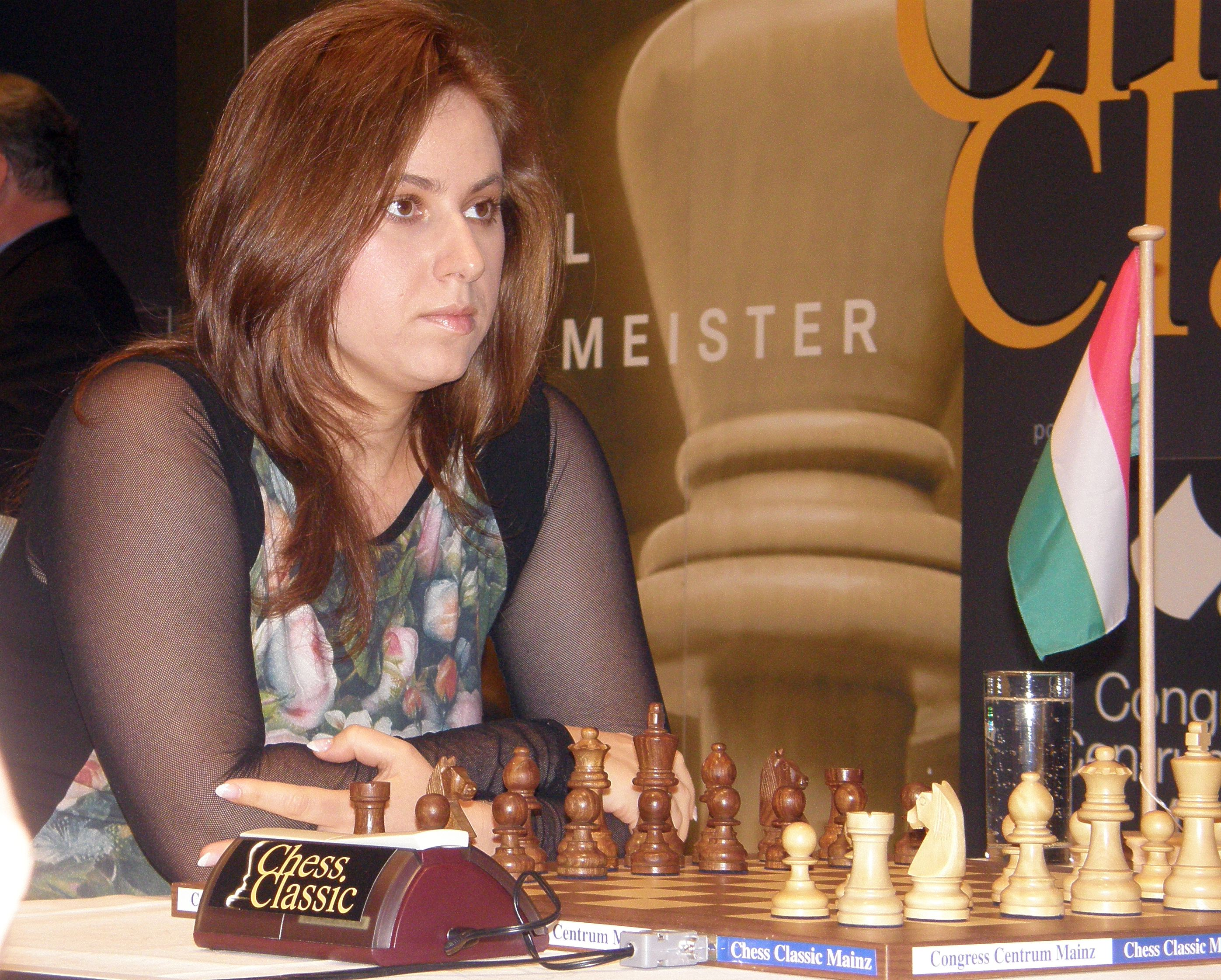 Judit Polgar, chess grandmaster from Hungary